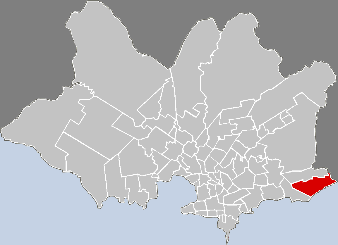 Map highlighting the given barrio in Montevideo.